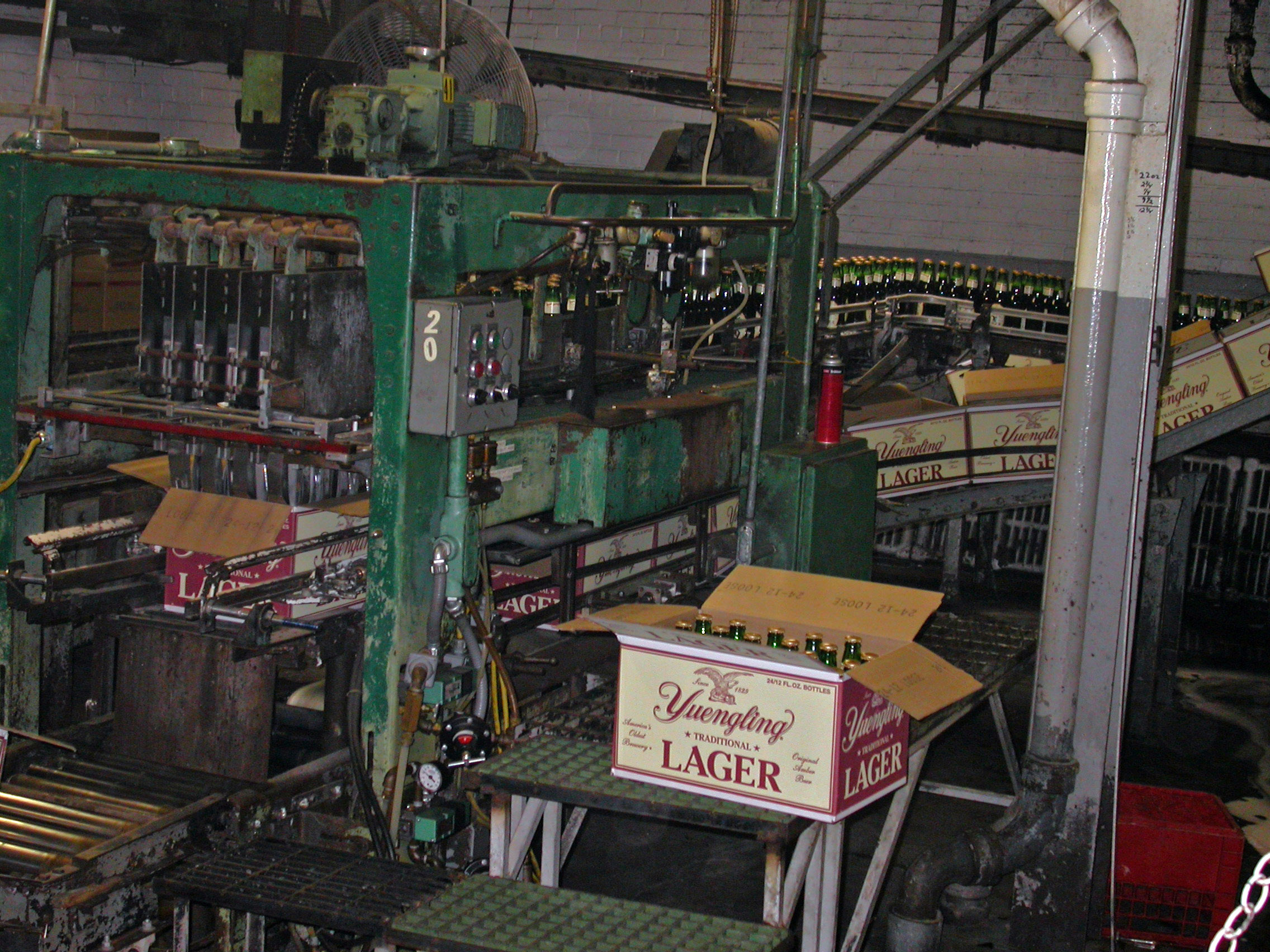 Finished bottles of Traditional Lager being placed into cases at Yuengling Brewery, Pottsville, PA.